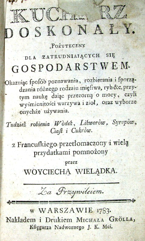 Wojciech Wielądko's "Kucharz doskonały" title page